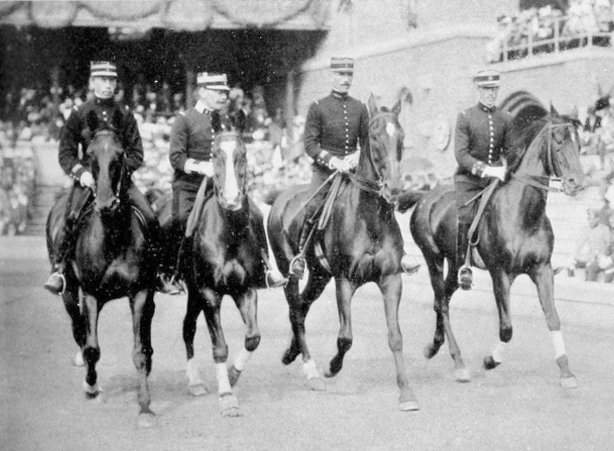 The team of France in team prize jumping. 2nd prize Lieutenant d'Astafort; Major Meyer; Captain Cariou; Lieutenant Seigner